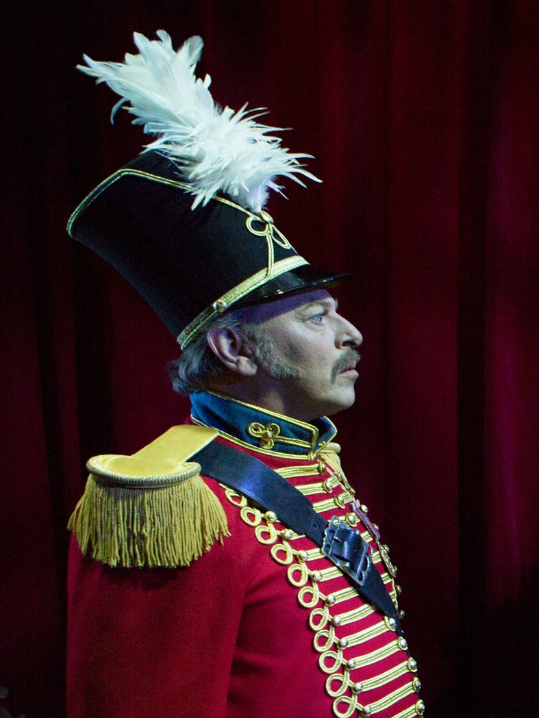 Kristian Boland in the Copenhagen theater Folketeatret's production of the play "Frøken Nitouche" (Mam'zelle Nitouche) by Henri Meilhac and Albert Millaud.